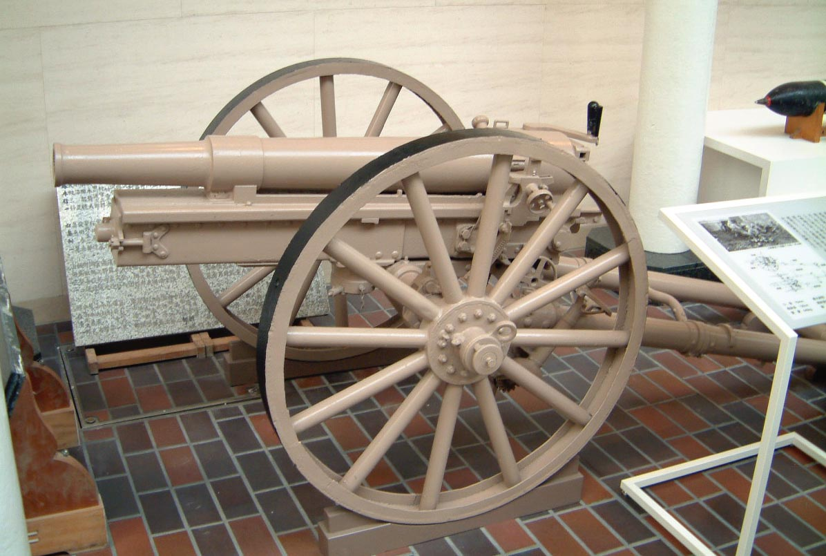 A Japanese Type 41 75mm Mountain Gun at the Yasukuni Shrine.